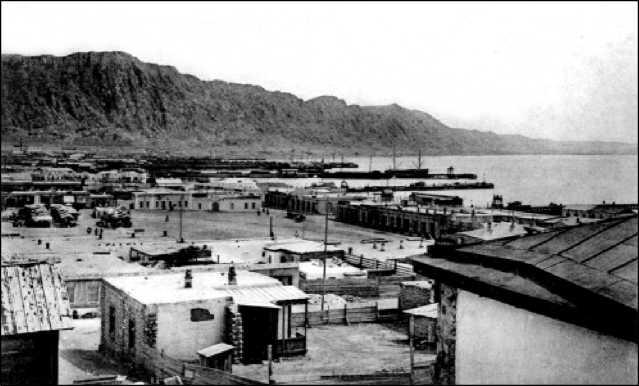 Türkmenbaşy in 1913